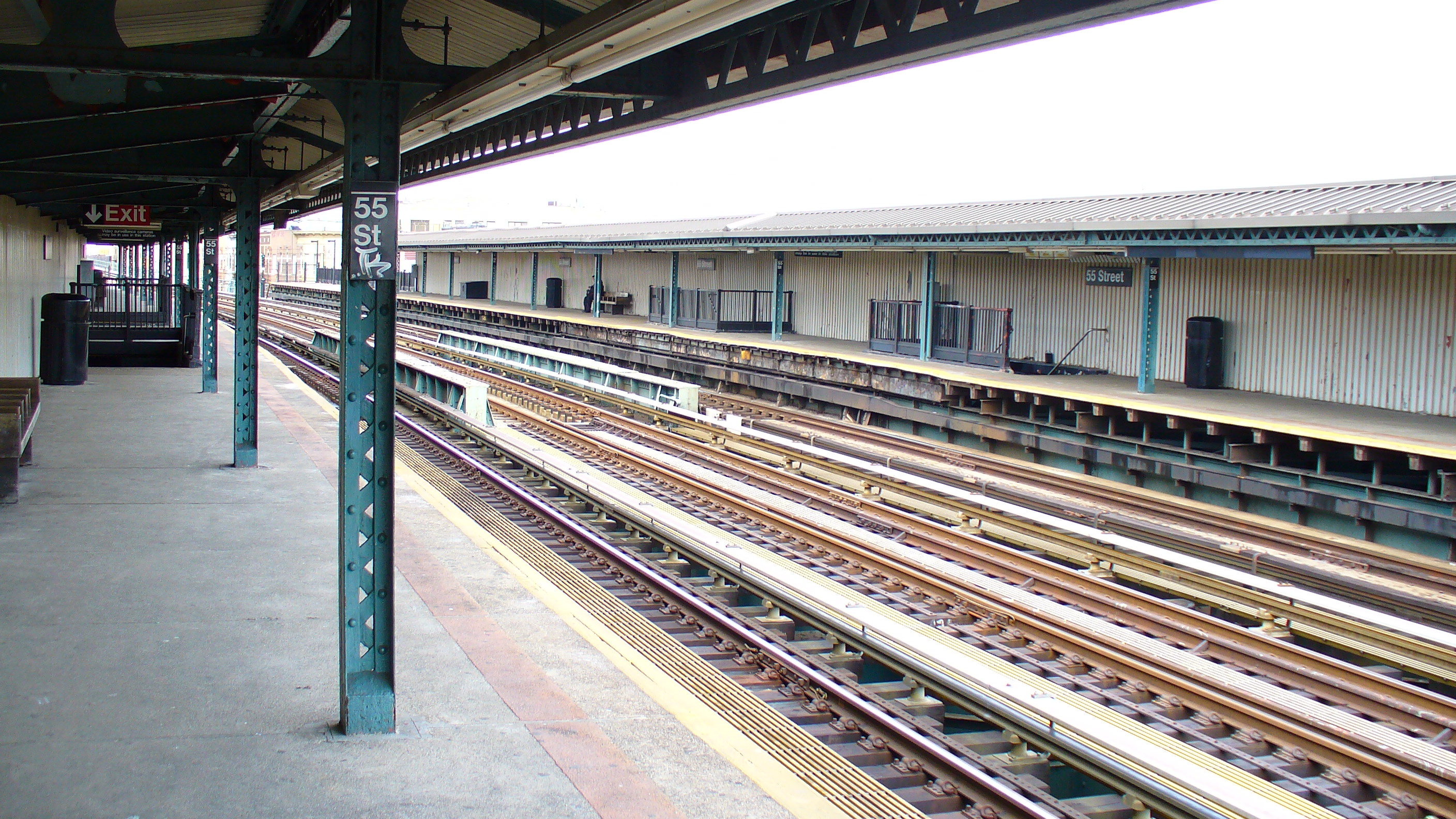 55th Street D Line NYC Subway Station by David Shankbone